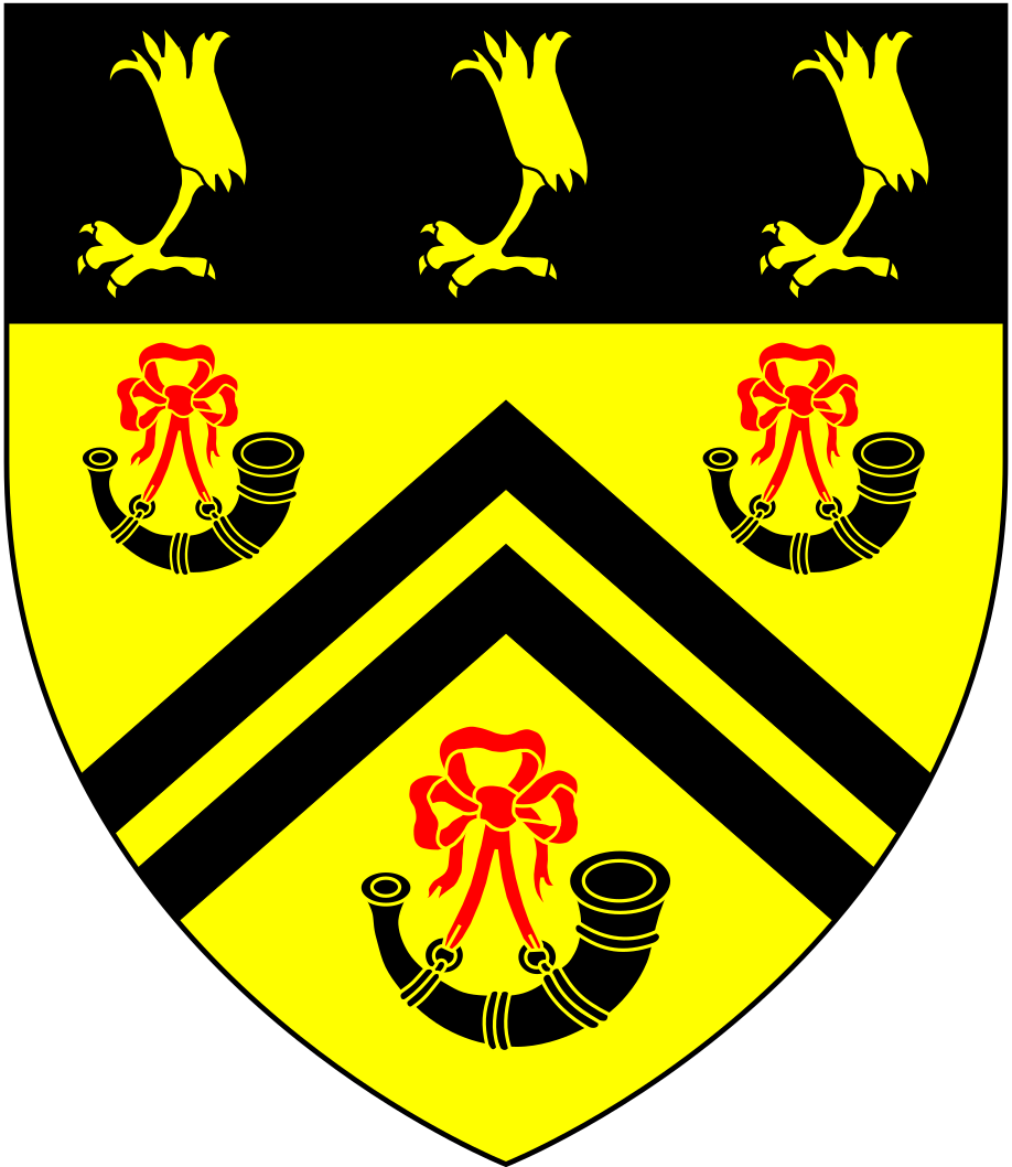 Arms of Hornby of Dalton Hall, near Burton, Westmorland: Or, two chevronels between three bugle-horns sable stringed gules on a chief of the second as many eagle's legs erased of the first ( Burke's Genealogical and Heraldic History of the Landed Gentry, 15th Edition, ed. Pirie-Gordon, H., London, 1937, p.1156)